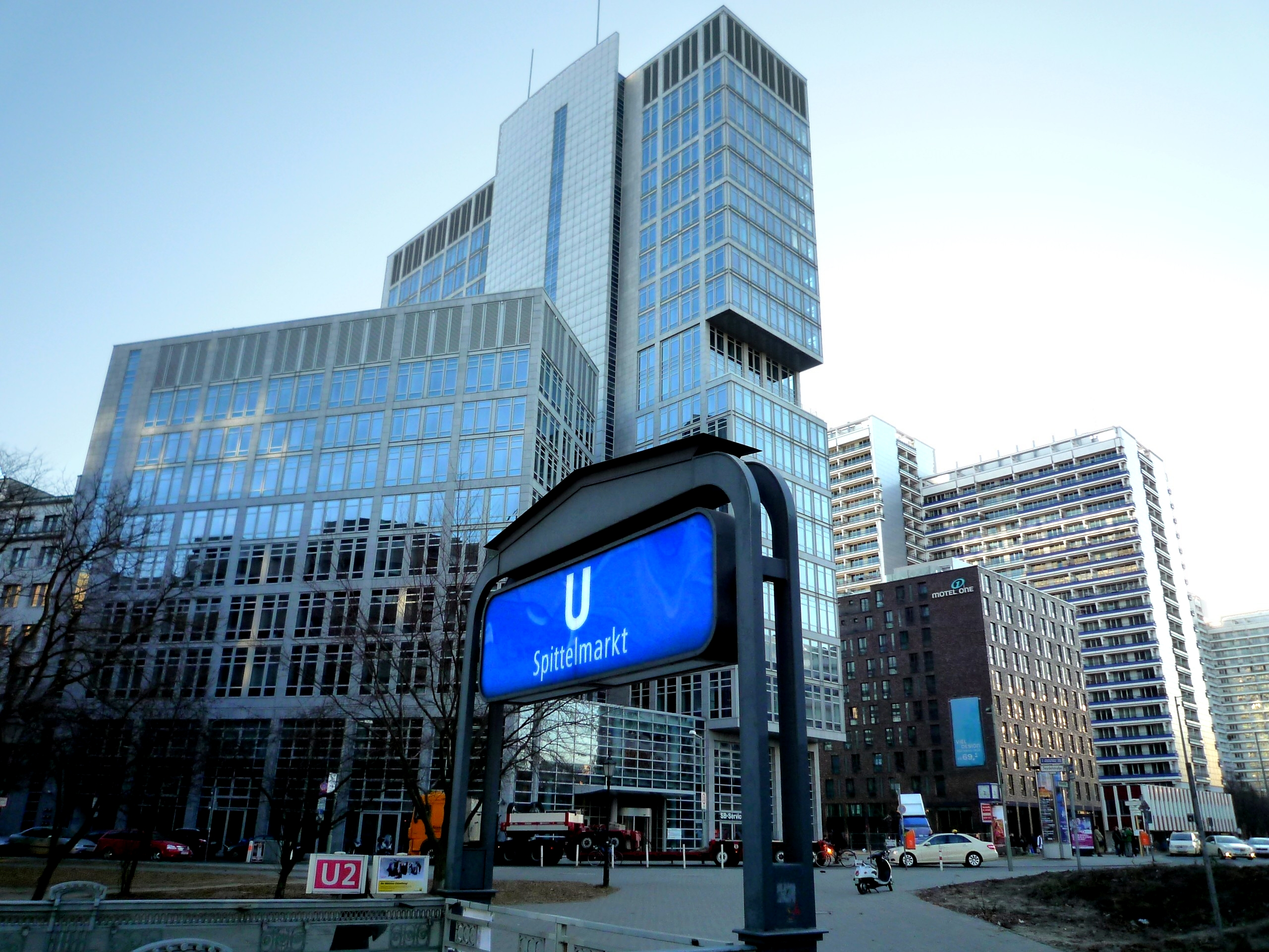 Subway-station "Spittelmarkt", entrance. Buildings at Leipziger Strasse in Berlin (Germany).